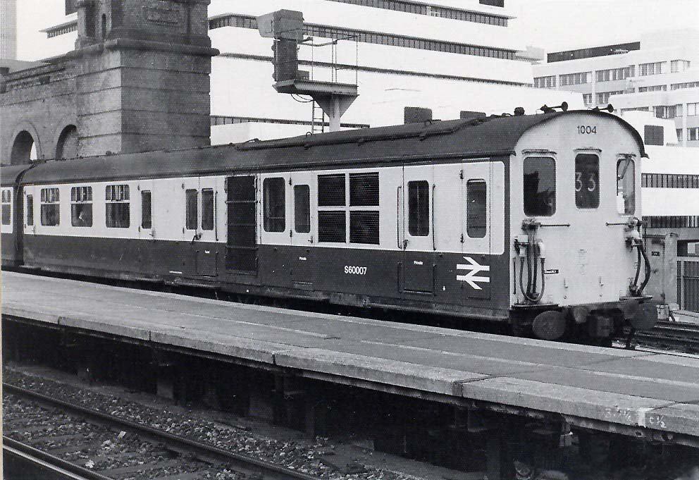 British Rail Class 201 (or 6S) six-car Hastings diesel-electric multiple unit. Set 1004 prepares to leave Cannon Street station on 14 May 1984